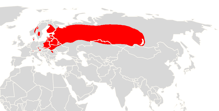 Northern Birch Mouse (Sicista betulina), range map, depending on the range map at IUCN red list